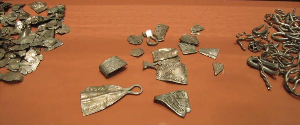 Hack silver from the medieval period